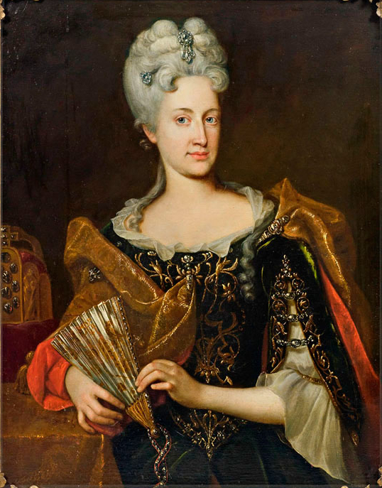 Portrait of Empress Elisabeth Christine